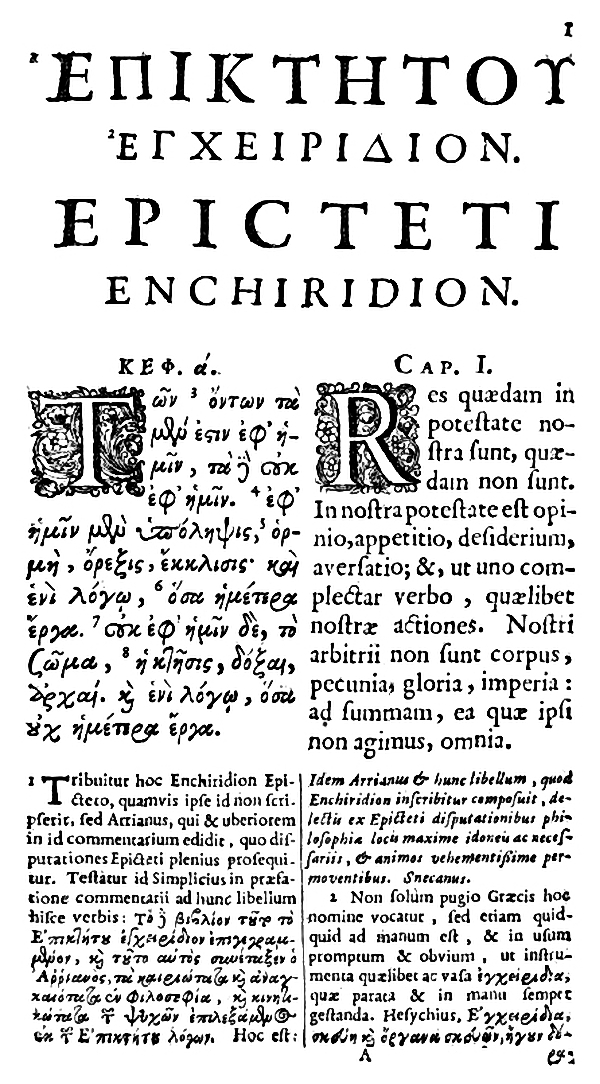 Chapter 1, page 1, of the Enchiridion of Epictetus, from the 1683 edition in Greek and Latin by A. Berkelius